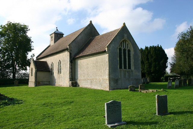 Church of King Charles the Martyr, Shelland, near Harleston, Suffolk, England